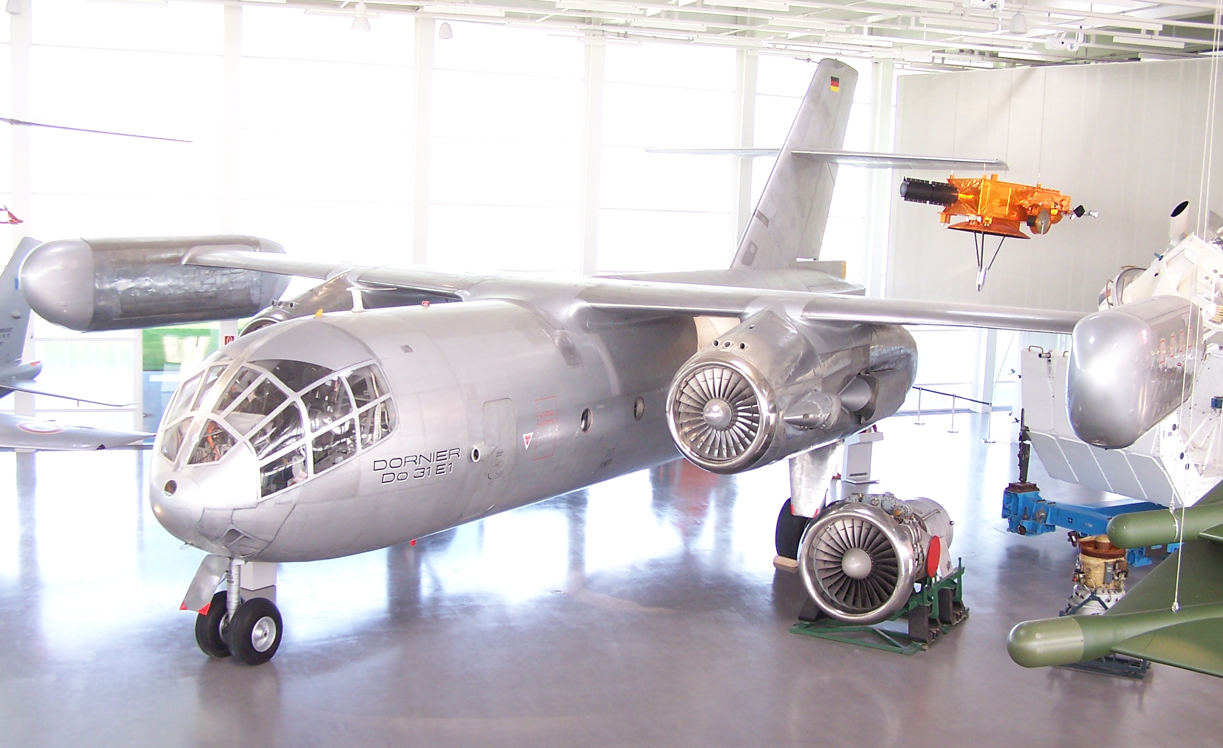 Dornier Do 31 E1 at Dornier Museum